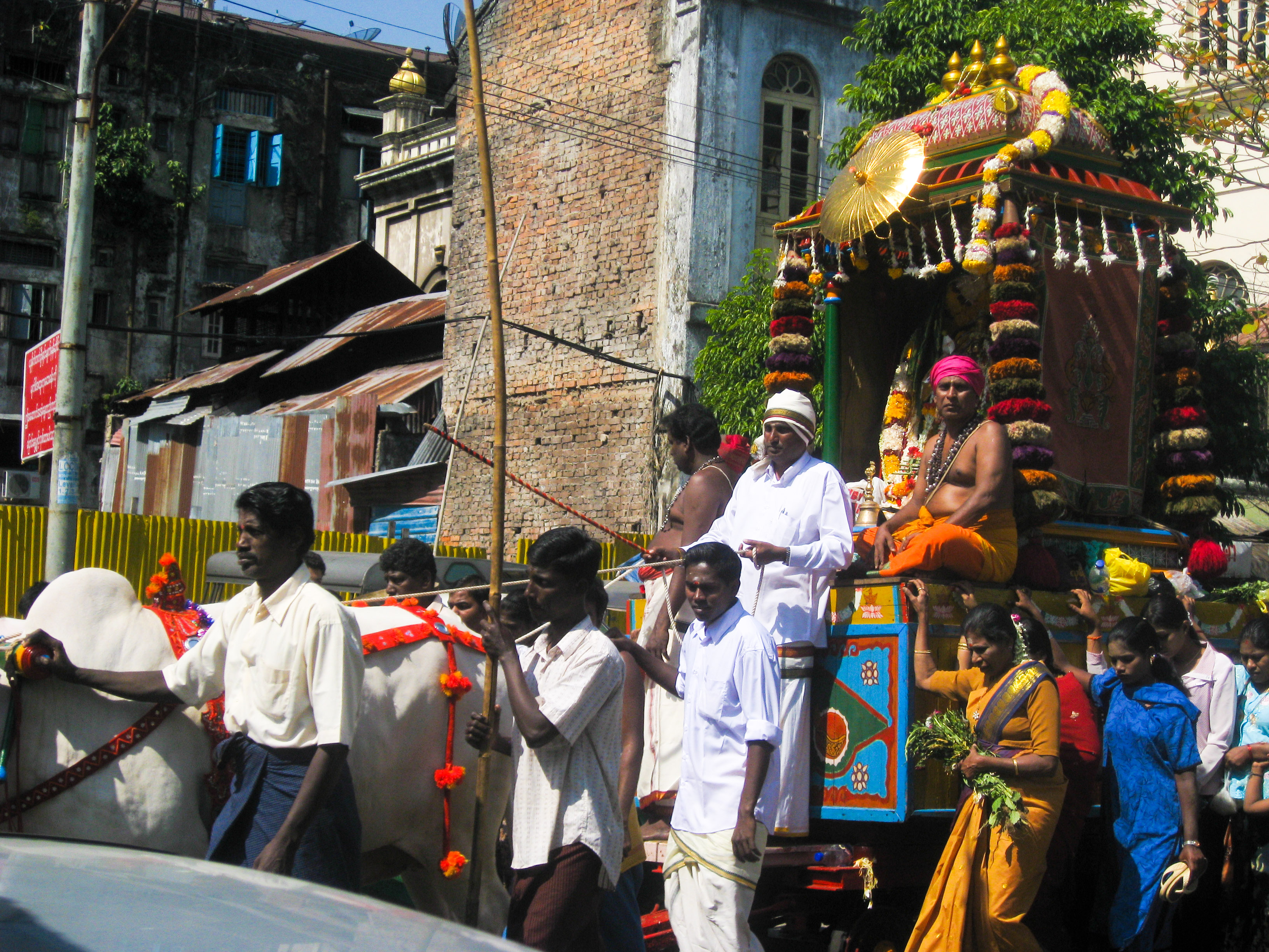 Hindu temple procession 2, Yangon